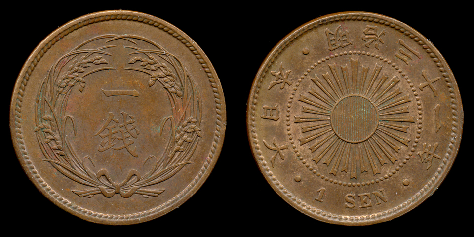 1sen-M31